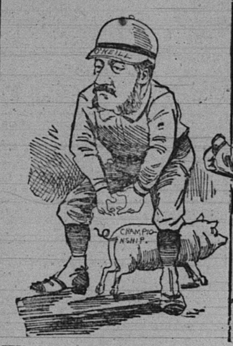 Section of front page cartoon 'After Slippery Prizes: When Mayor Gourley, Congressman Dalzell and President O'Neill Catch Their Greased Pigs, How Happy the People Will Be.' J. Palmer O'Neill attempting to catch the greased pig indicated as 'championship.'